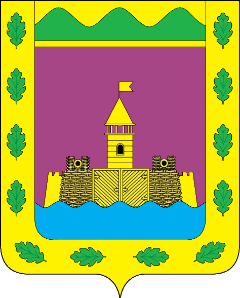 Coat of Arms of Abinsk (2009)